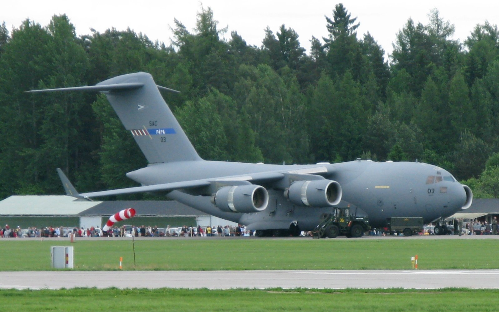 Boeing C-17 Globemaster III, s/n SAC 03, operated by the Strategic Airlift Capability’s Heavy Lift Wing in Hungary.Event: Swedish Armed Forces’ Air Show at Malmen, Linköping 2010.